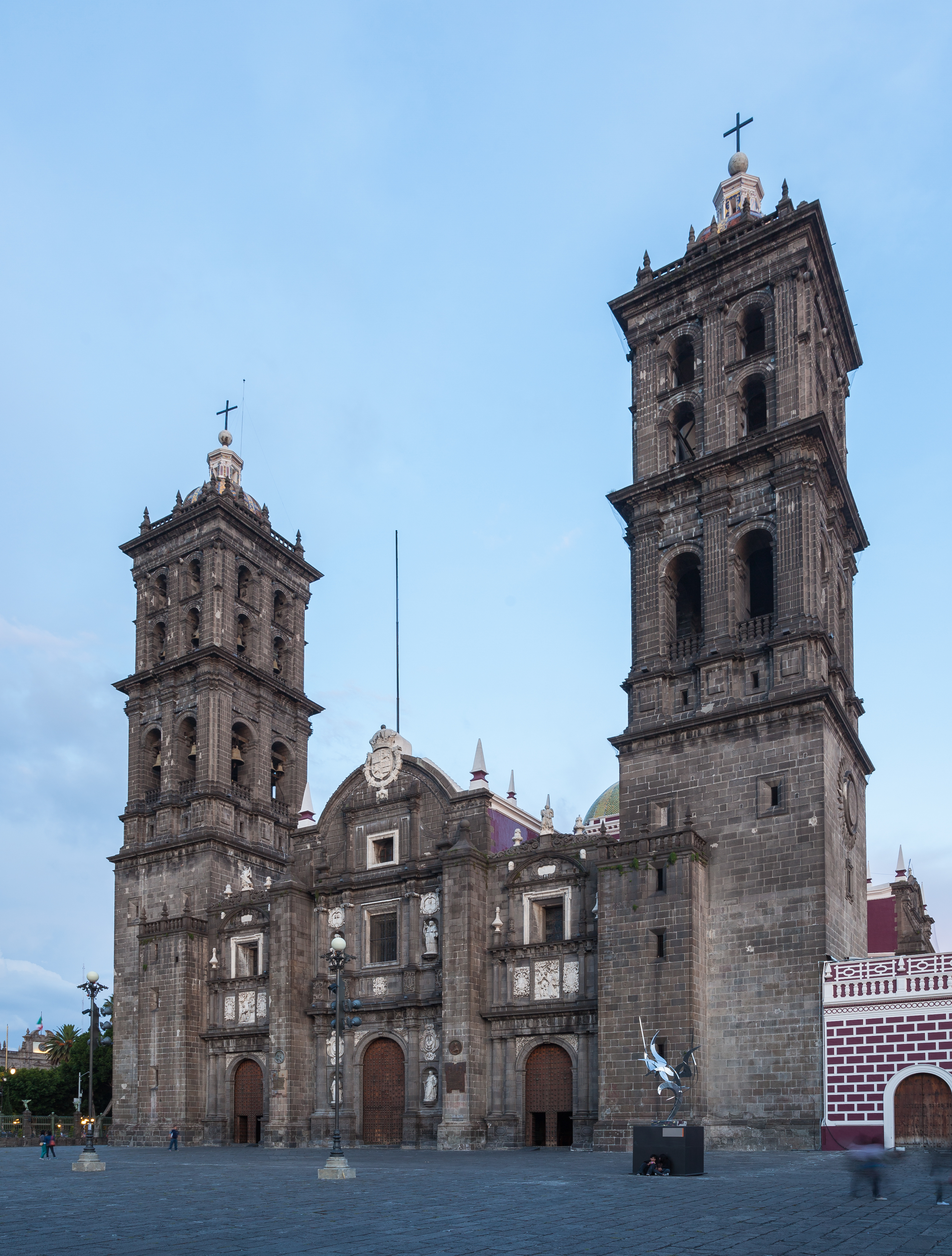 Puebla Cathedral, Mexico